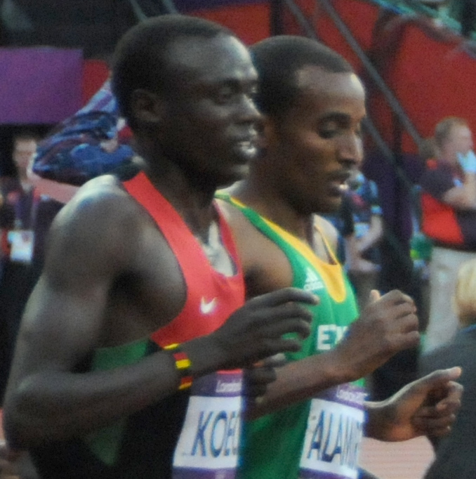 5000m men's final at the 2012 Summer Olympics. Isiah Kiplangat Koech, Yenew Alamirew